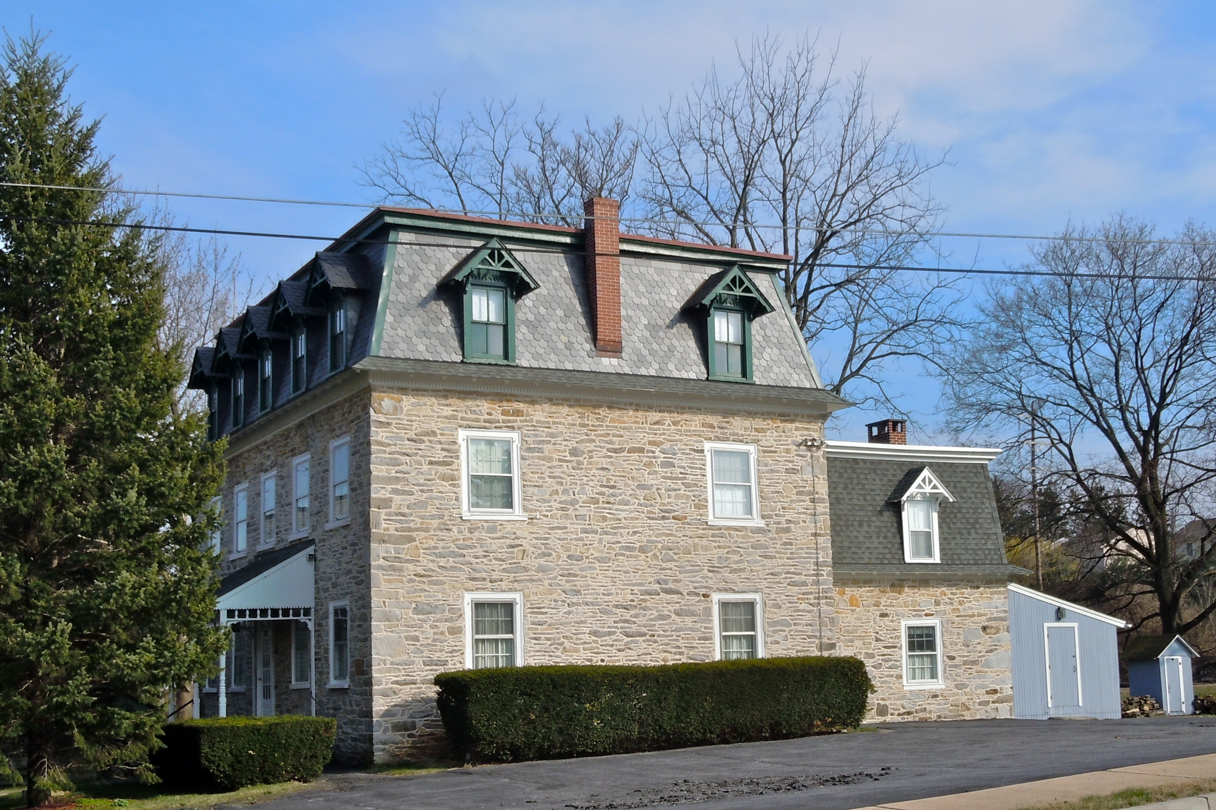 Lerch Tavern on the NRHP since September 12, 1979. At 182–184 West Penn Avenue in Wernersville, Berks County, Pennsylvania